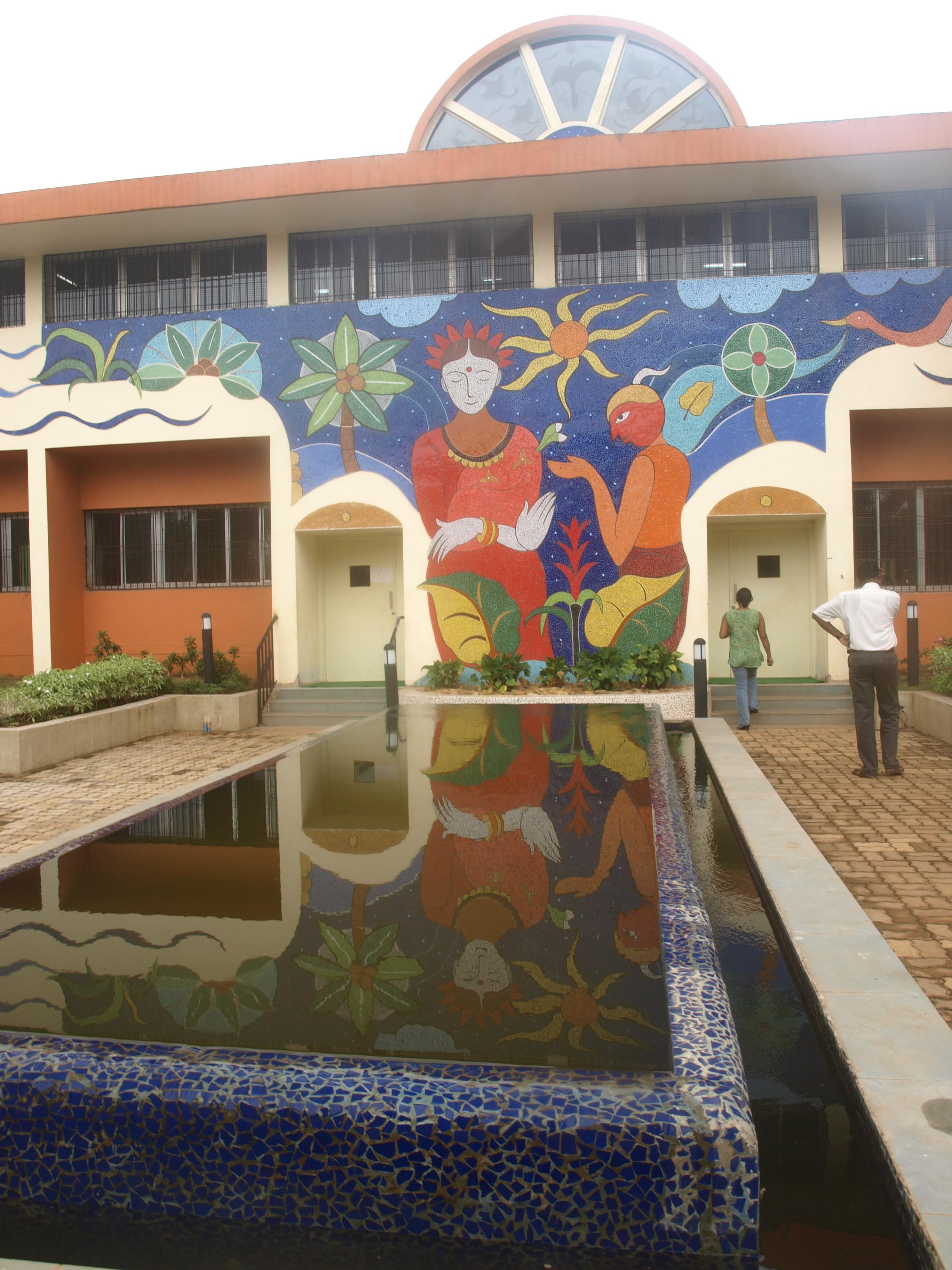 Chowgule College Library Building, Margao, Goa, India. Photo by Frederick Noronha.